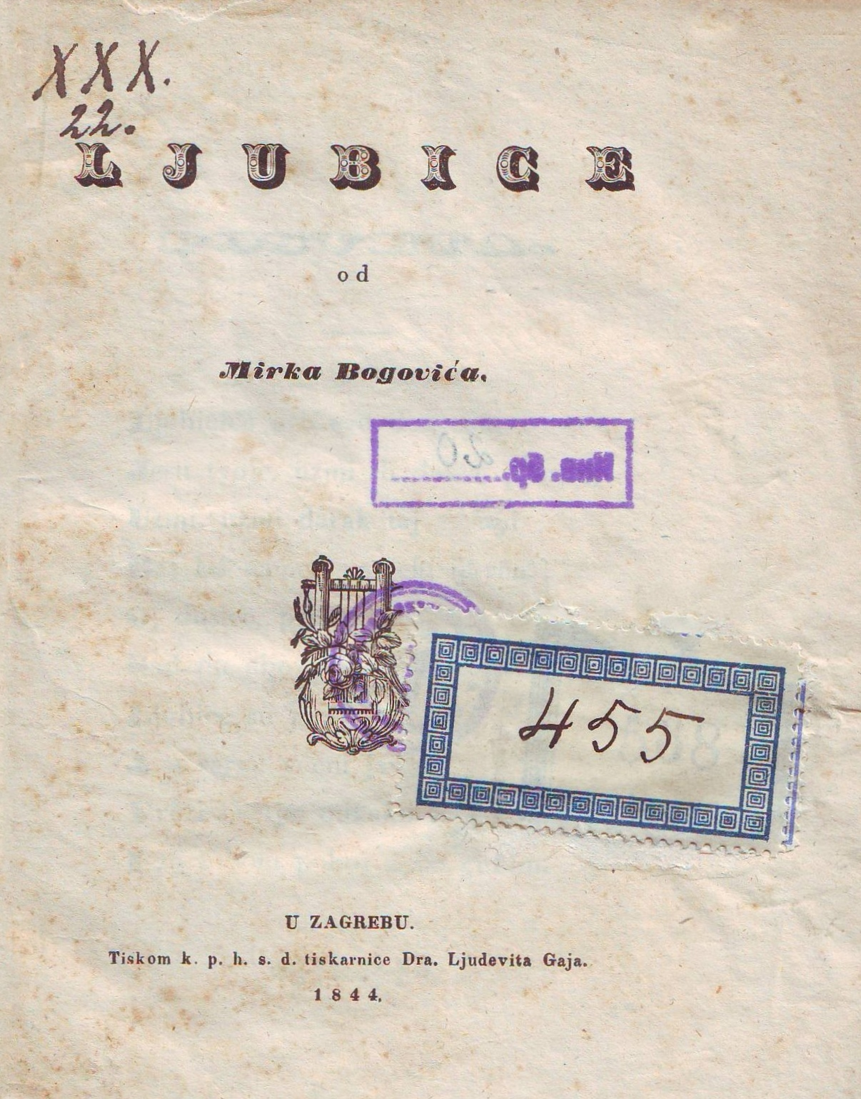 Cover of poetry collection Ljubice (1844) by Croatian poet Mirko Bogović. Srpski (latinica): Naslovna strana zbirke pesama Ljubice (1844) hrvatskog pesnika Mirka Bogovića.